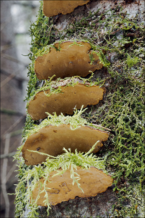 Phellinus conchatus (Pers.) Quél.